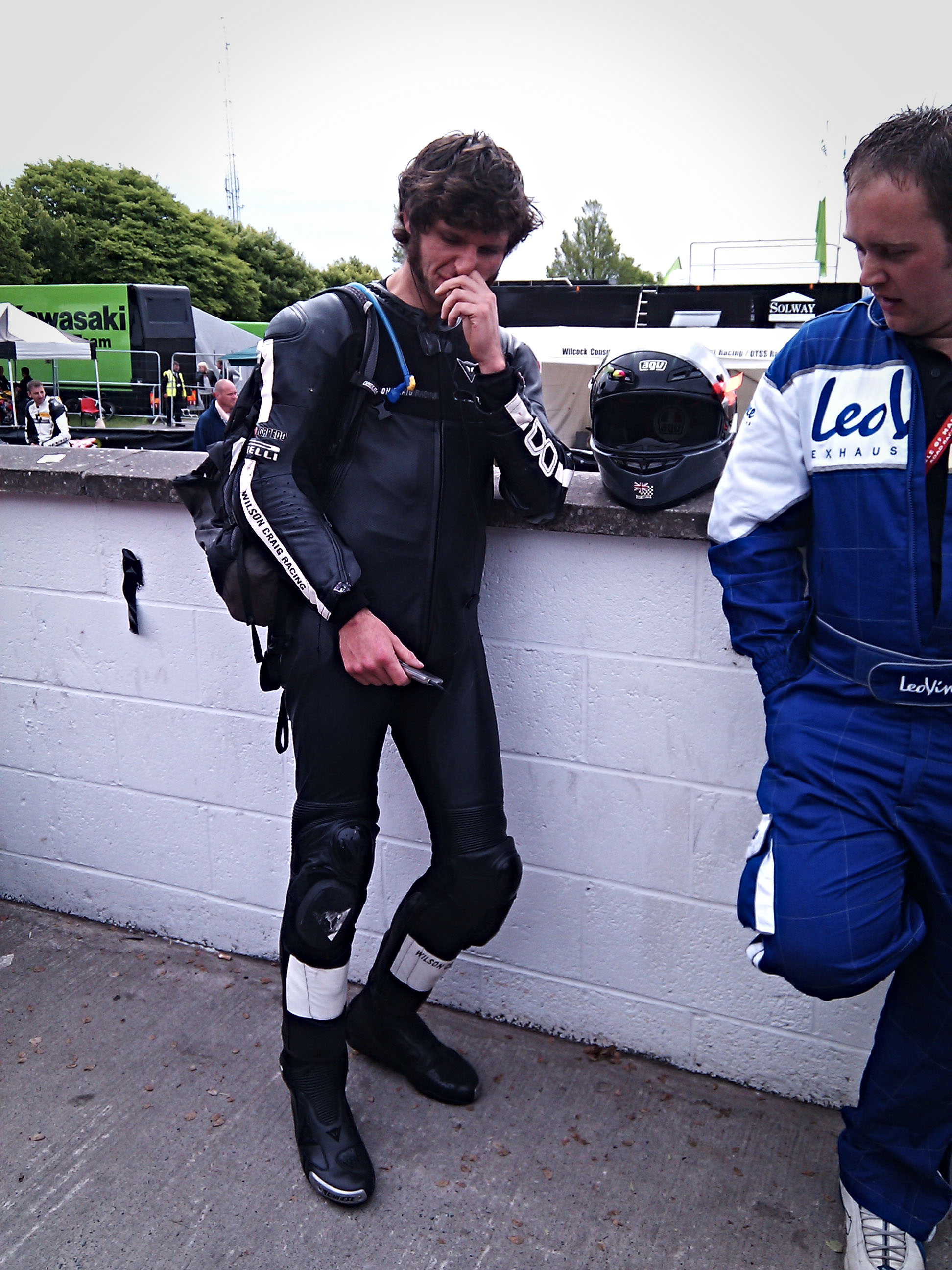 Guy Martin preparing for a race at the Isle of Man TT